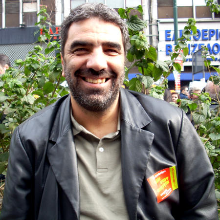 Greek journalist and politician George Helakis